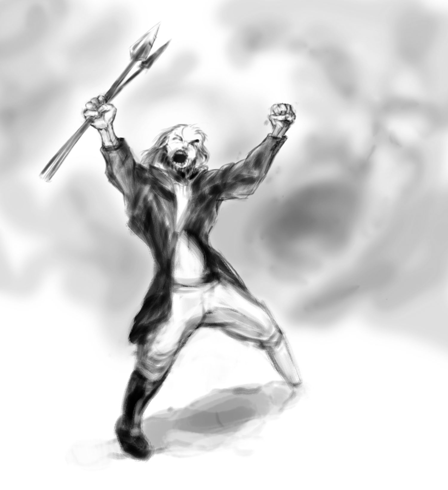 Captain Ahab proclaims: "Blacksmith, I set ye a task. Take these harpoons and lances. Melt them down. Forge me new weapons that will strike deep and hold fast. But do not douse them in water; they must have a proper baptism. What say ye, all ye men? Will you give as much blood as shall be needed to temper the steel?"